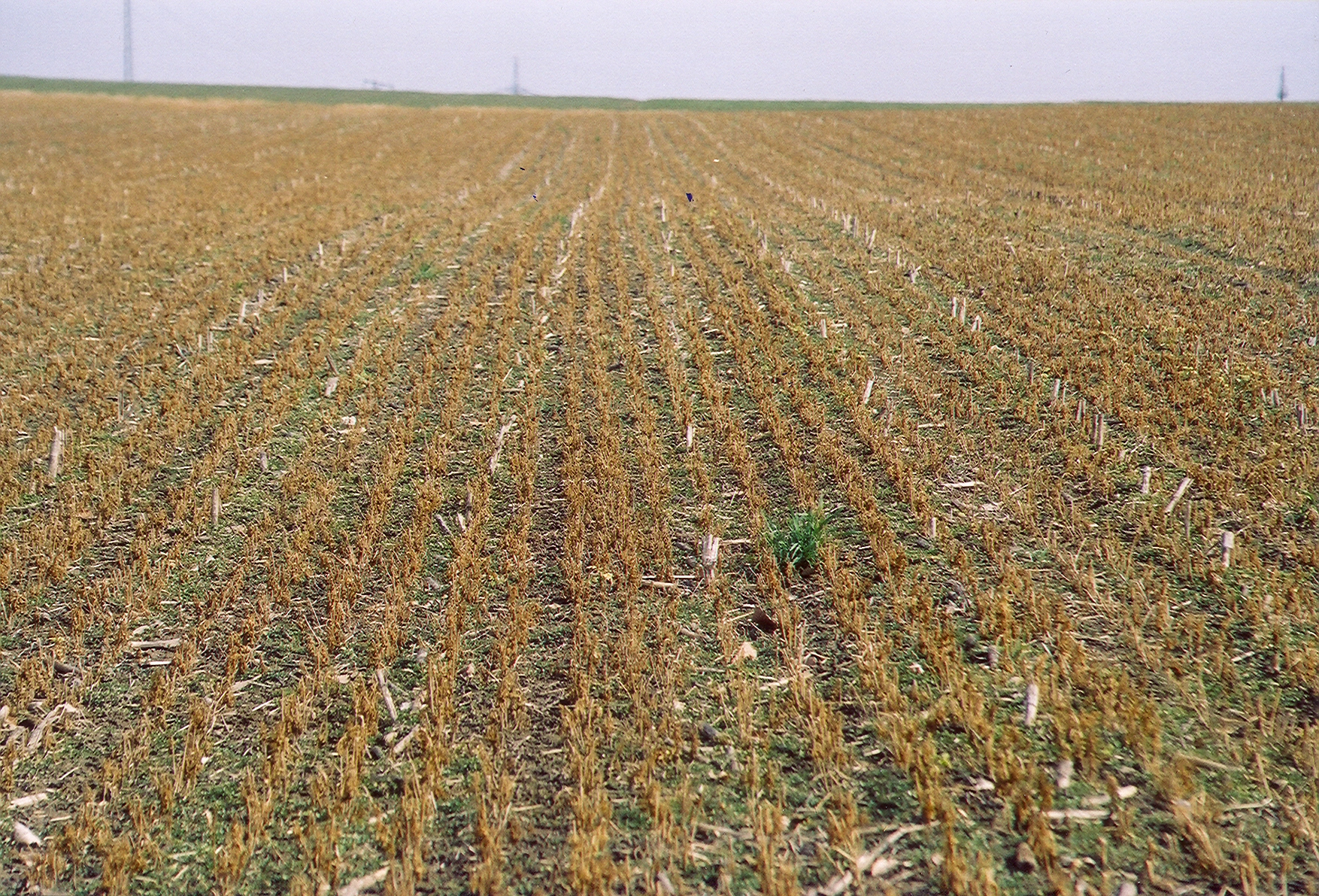 Cover crop, canton of Bern, Switzerland